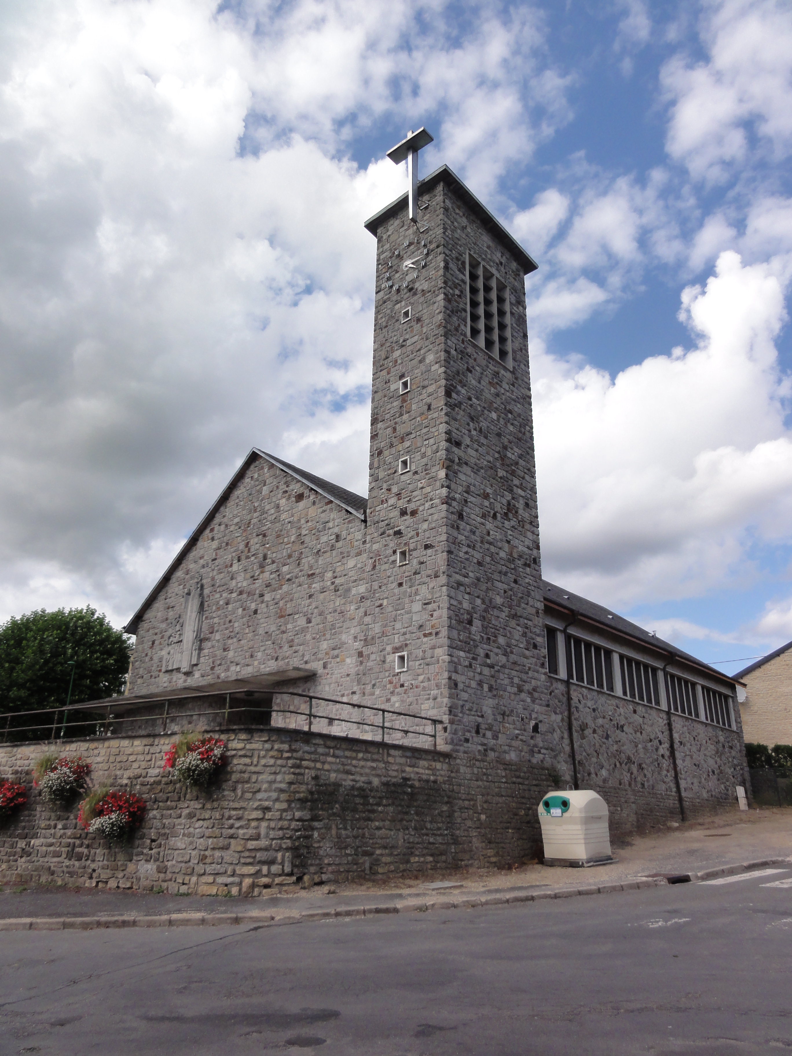 Étion (Charleville-Mézières, Ardennes) église